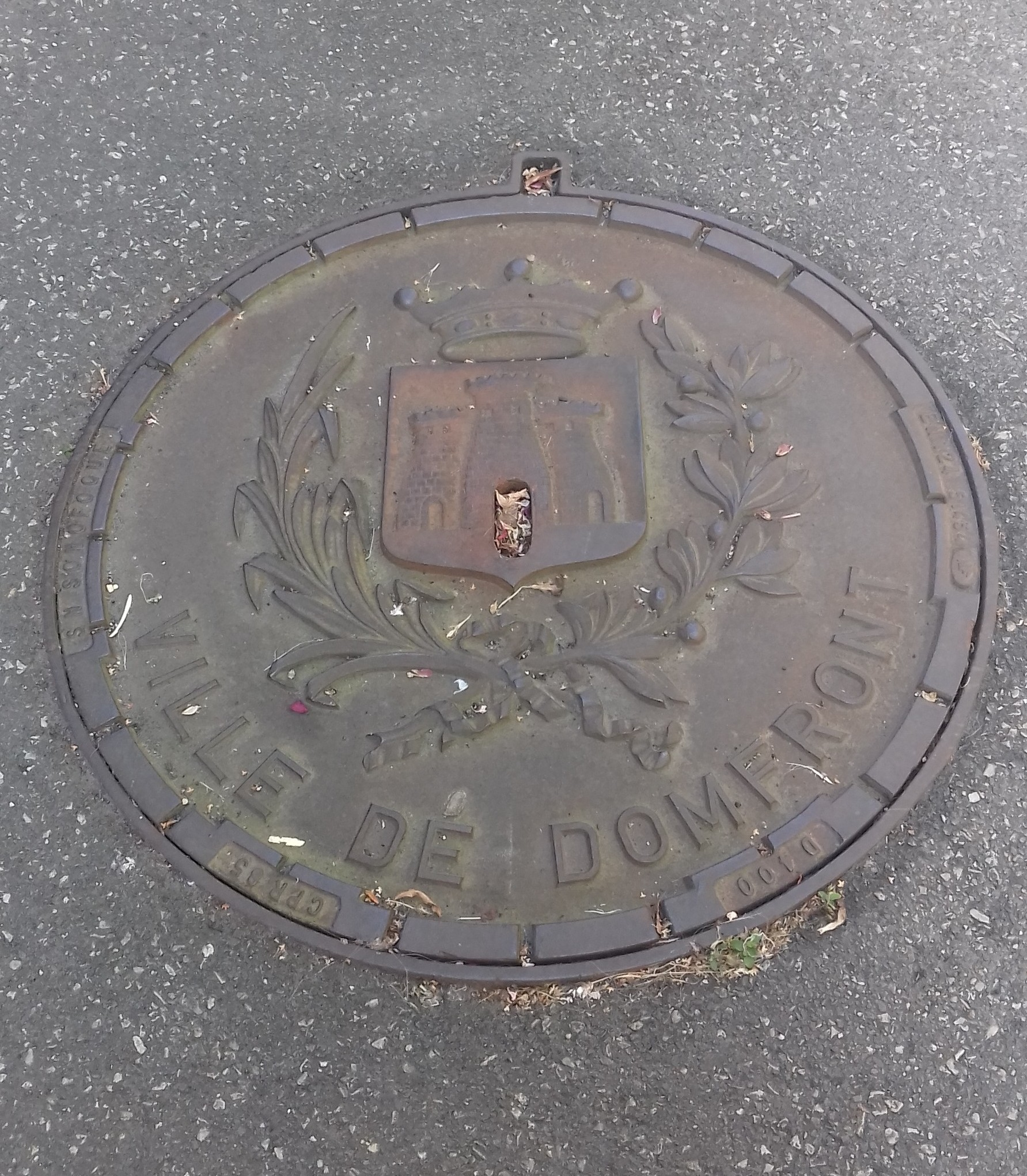 Manhole cover in the city of Domfront, with the coat of arms of the city.